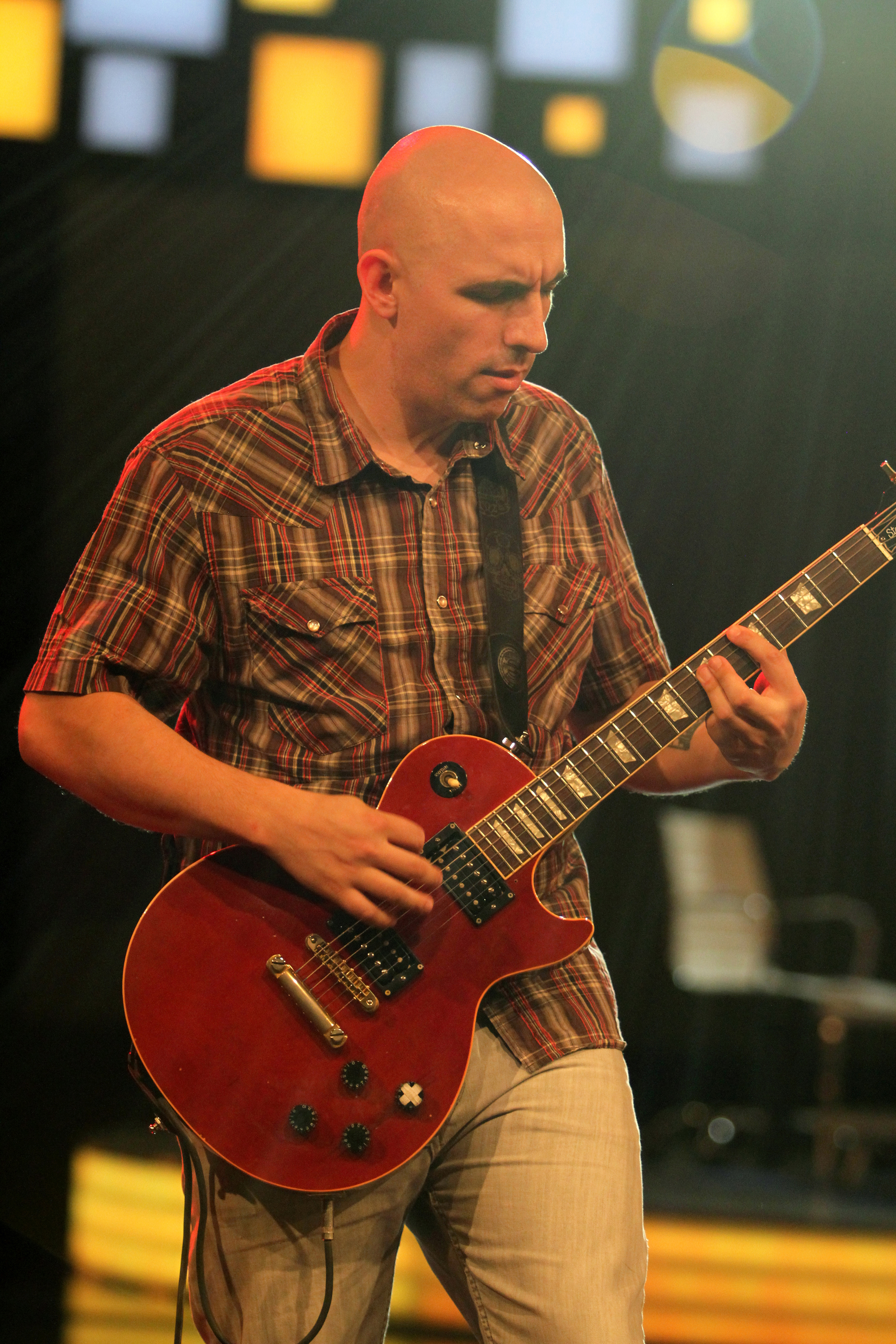 Futurock- sabado 15 de Noviembre. Gaspar Benegas, guitarrista de la banda fundamentalistas del aire acondicionado.